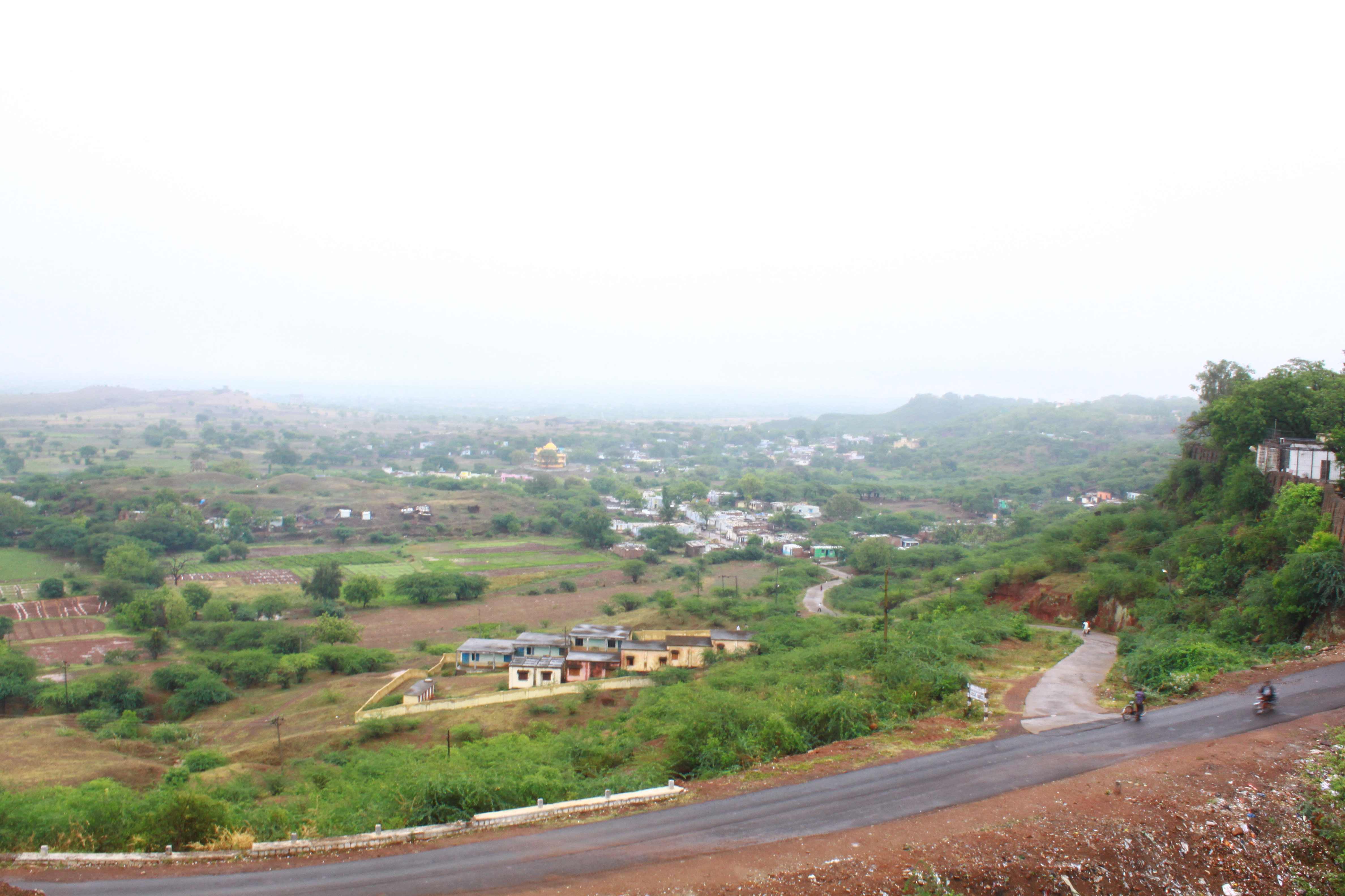 View from Chandani Chabutar Bidar QRPedia project launch & Wikipedia workshop - April 11th & 12th 2015, Bidar